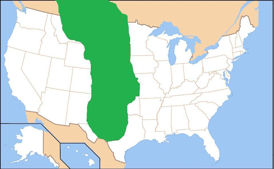 Map of the Great Plains (shaded in green).